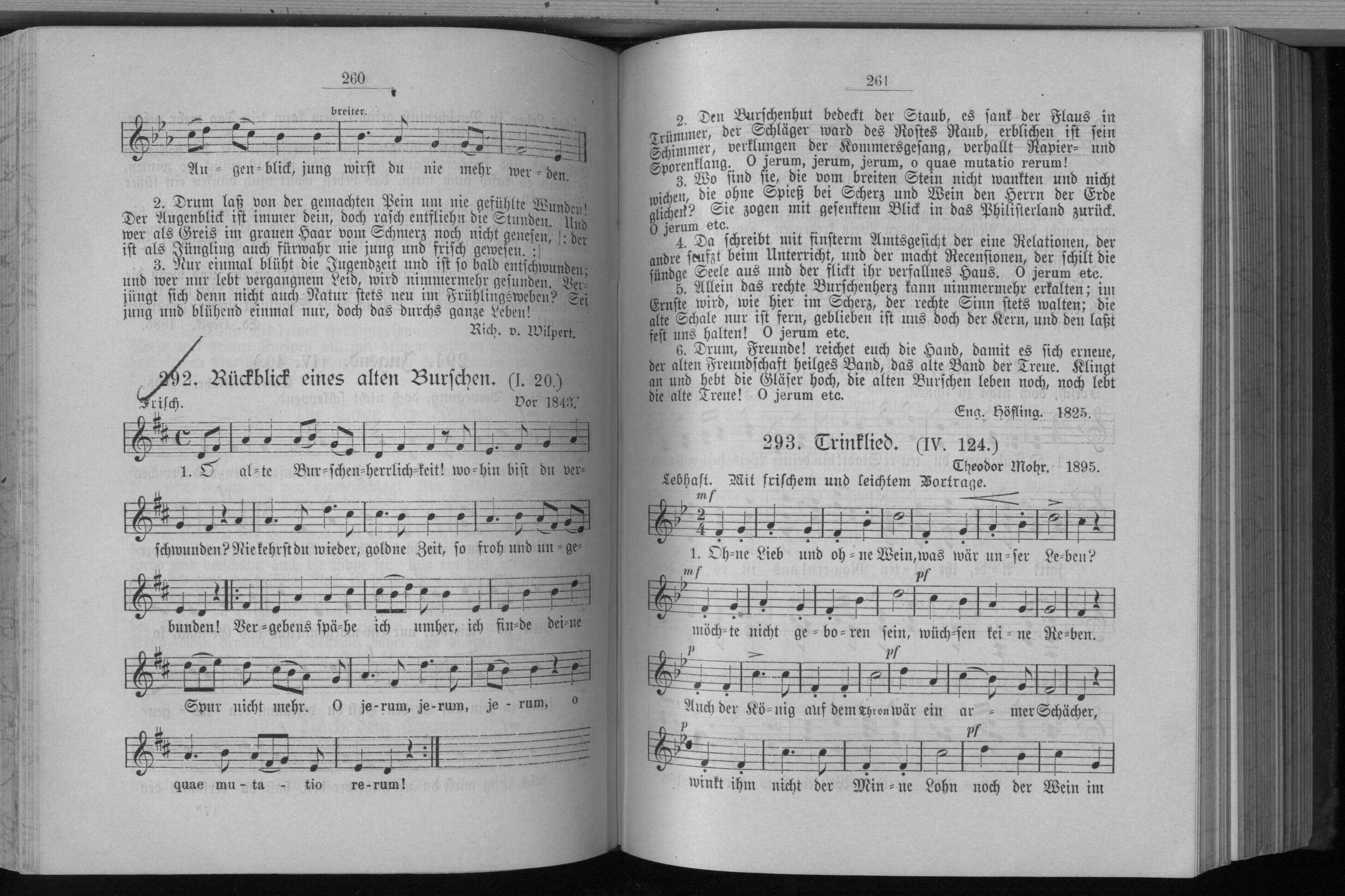 The Allgemeines Deutsches Kommersbuch (ADK) or Lahrer Kommersbuch is the most popular commercium book in Germany.